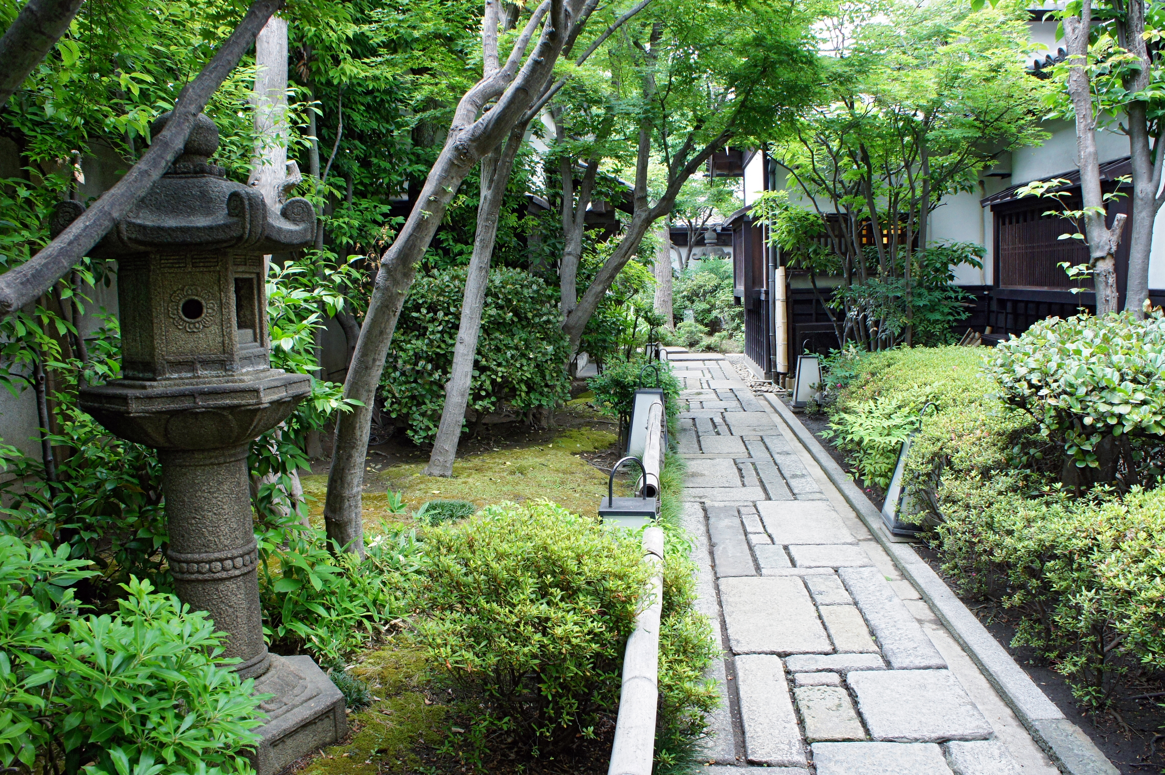 Old Tsujimoto House in Osaka, Osaka Prefecture, Japan.